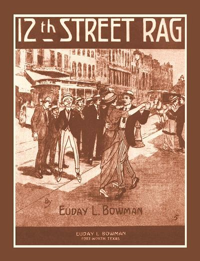 12th Street Rag, 1914